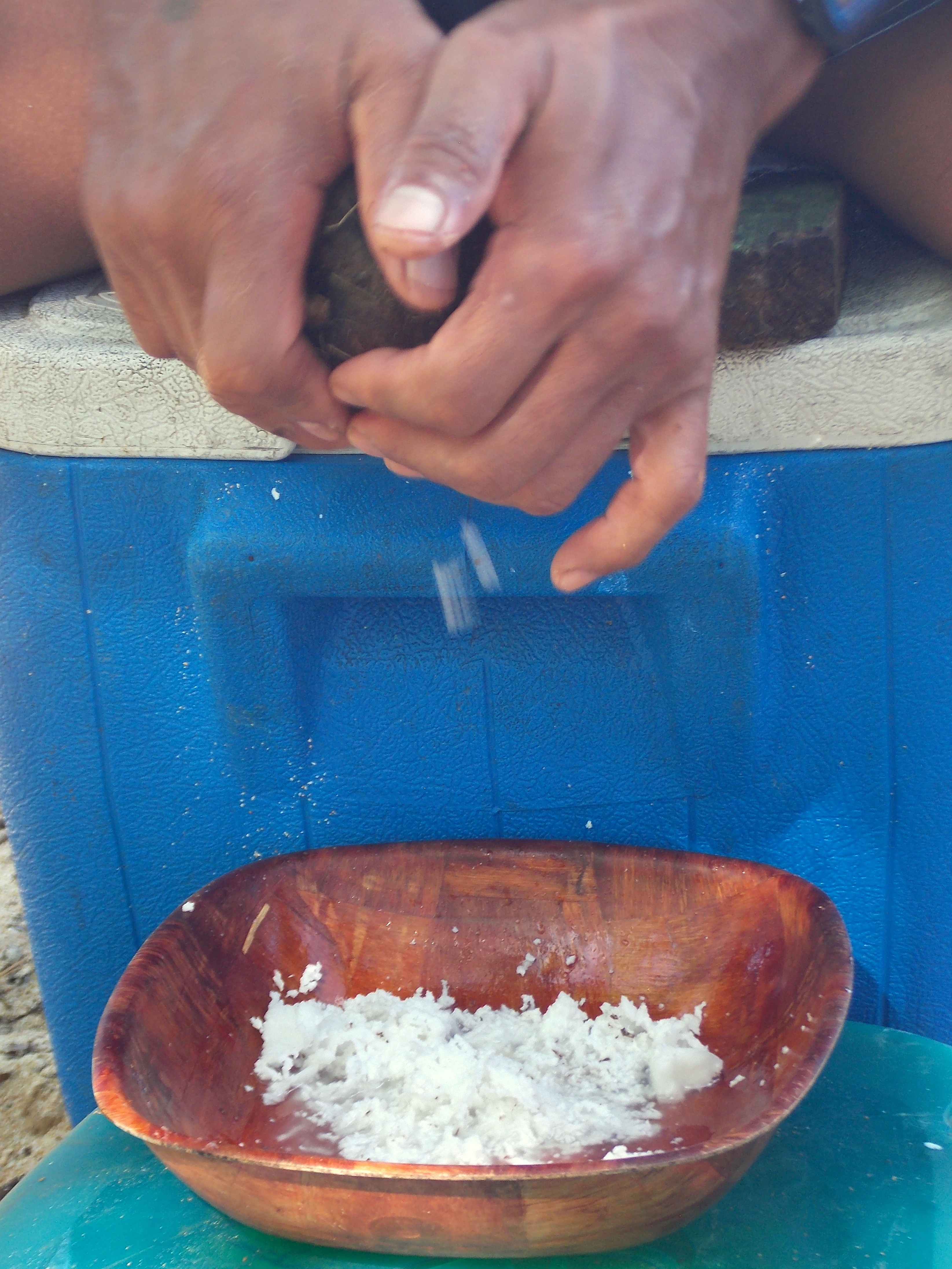 Grating white kernel coconut Poindimié Nouvelle-Calédonie